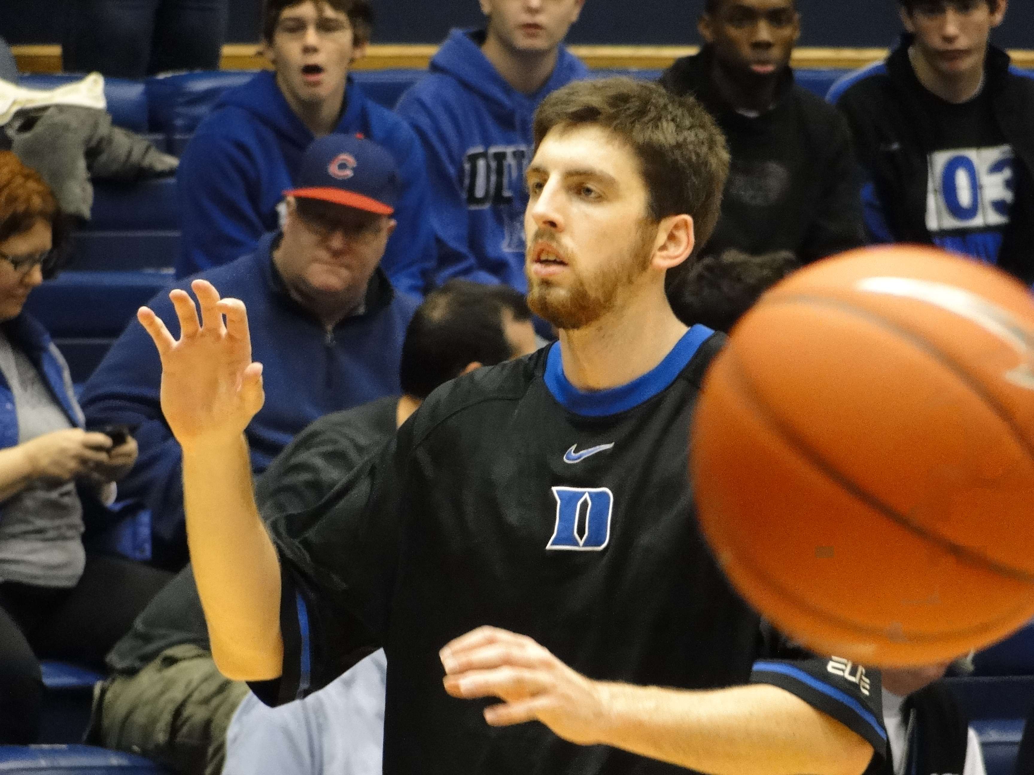 Ryan Kelly basketball player formerly of Duke